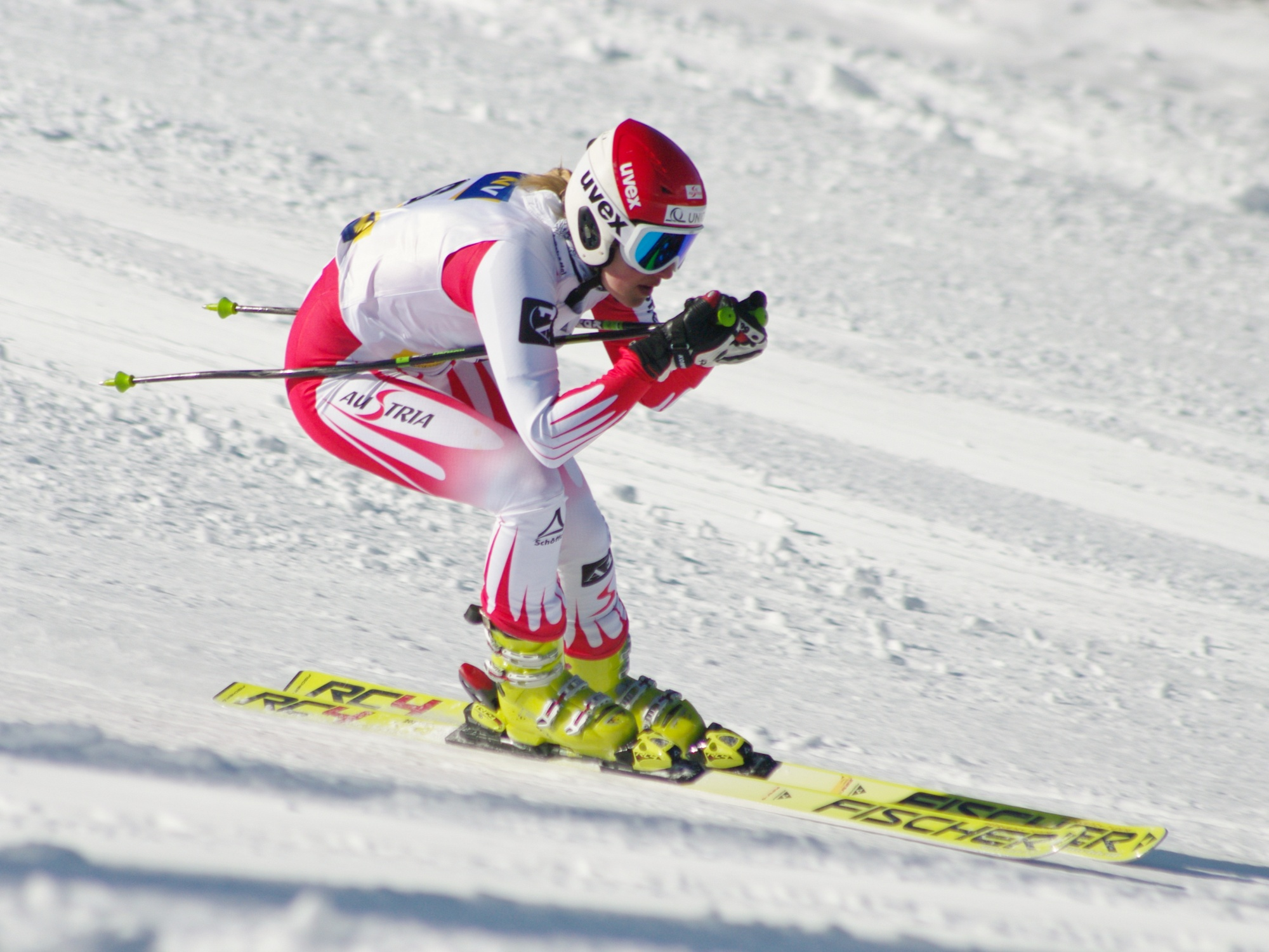 Austrian alpine skier Jessica Depauli in the FIS Super-G in Lackenhof, Austria, on 3 March 2010.